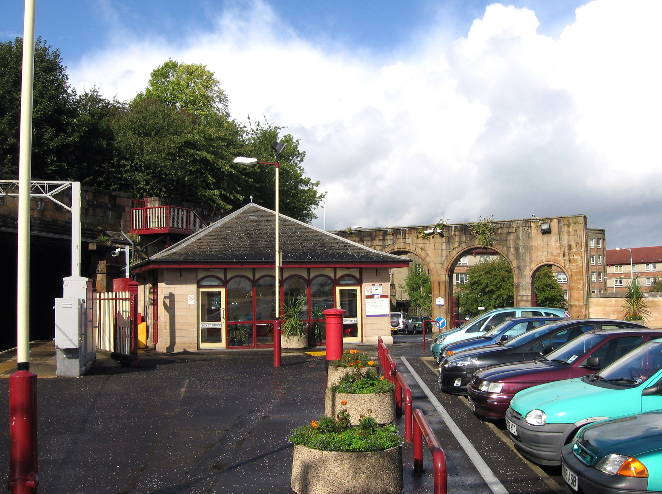 Greenock Central railway station, Creenock